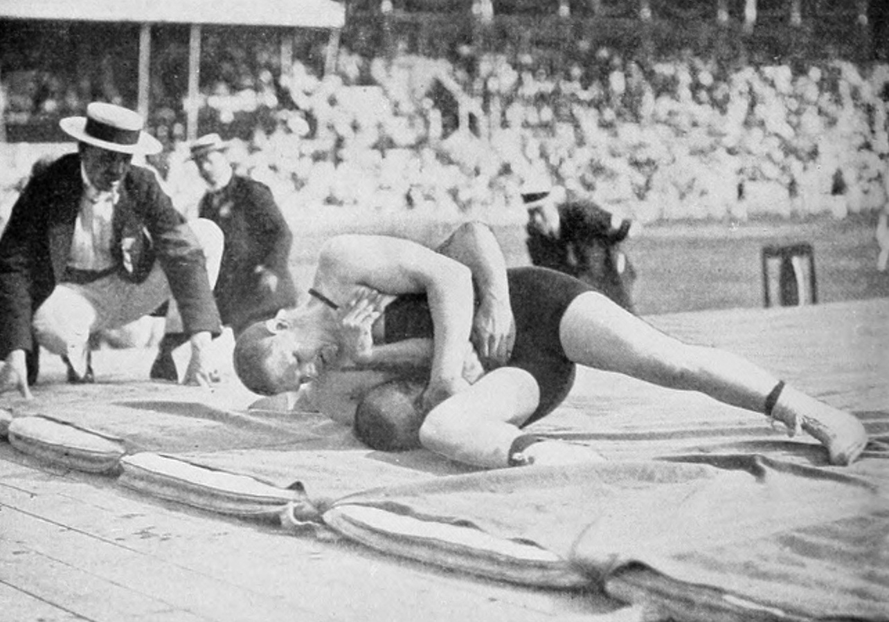 Anders Ahlgren (top) vs Béla Varga at the 1912 Olympics